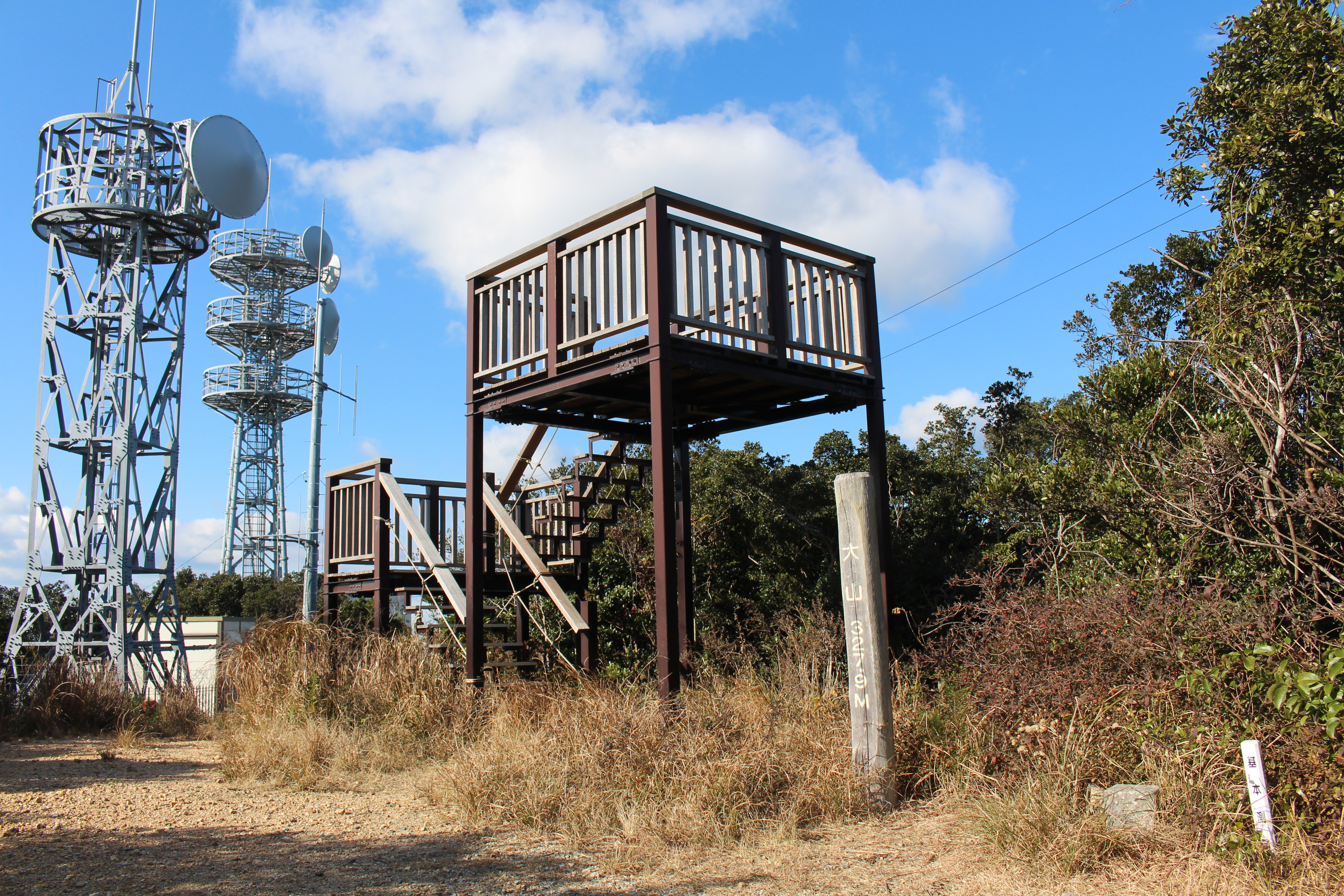 Peak of Mount Ō, in Tahara, Aichi prefecture, Japan.